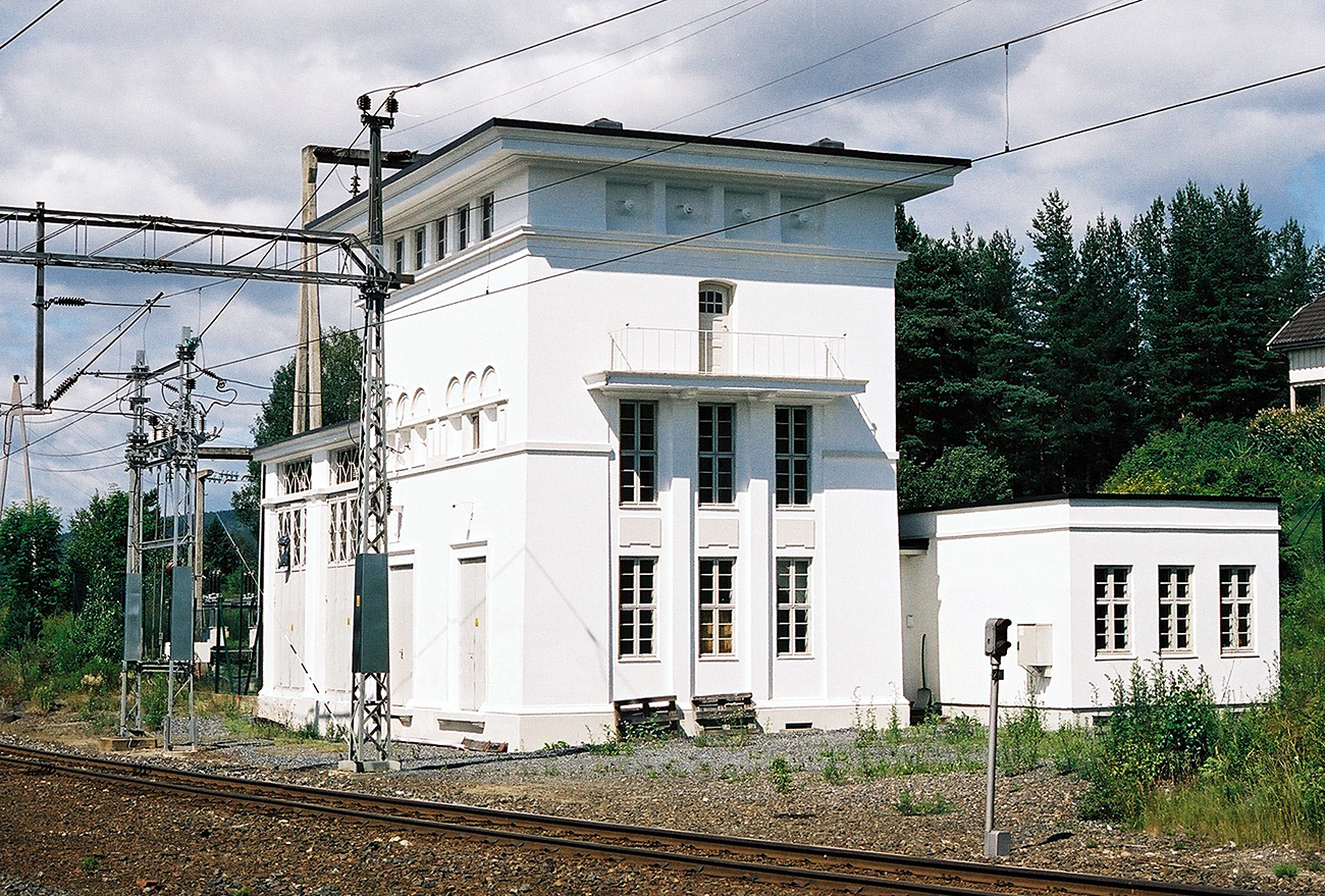 Skollenborg transformer station, Kongsberg, Norway. Built 1926. Cultural heritage monument 1997.